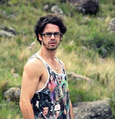 Sergio Podeley